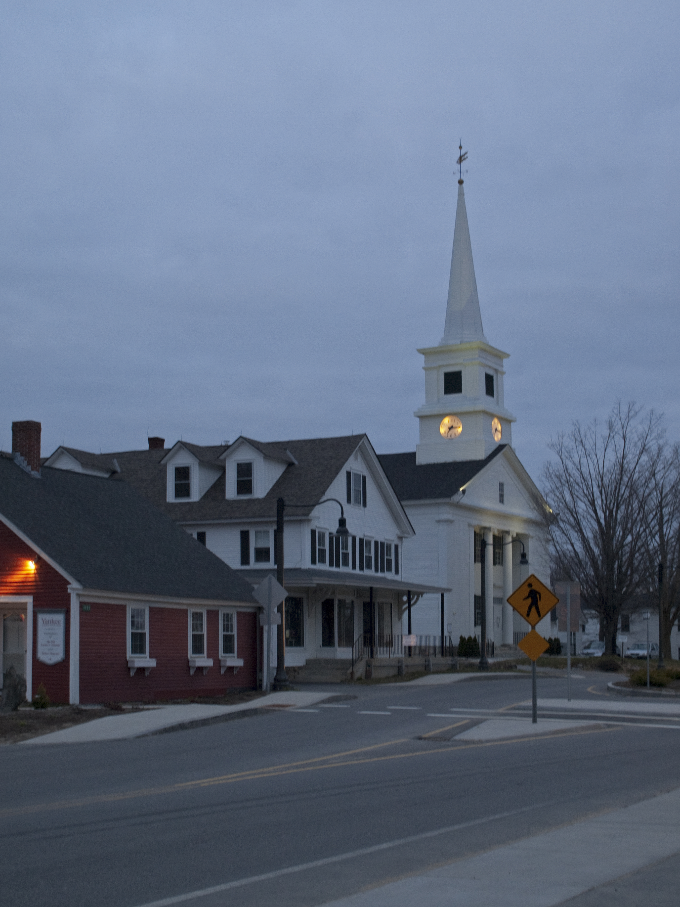 Dublin Community Church, Dublin, New Hampshire